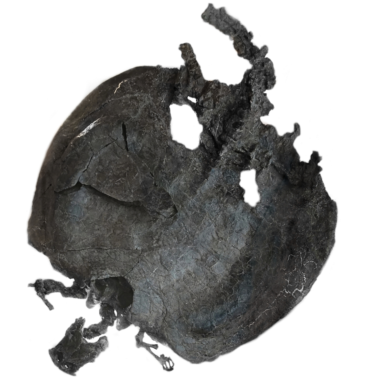 Henodus chelyops